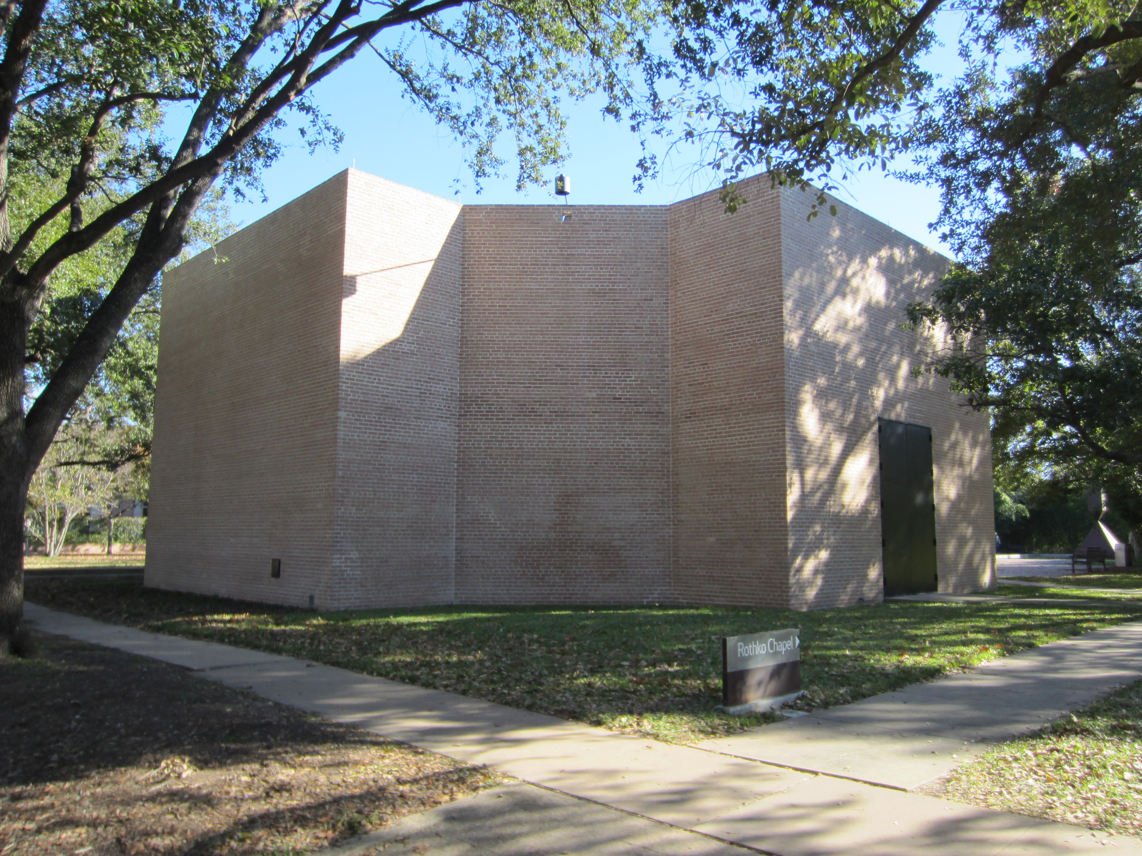 Rothko Chapel in Houston, Texas in January 2012